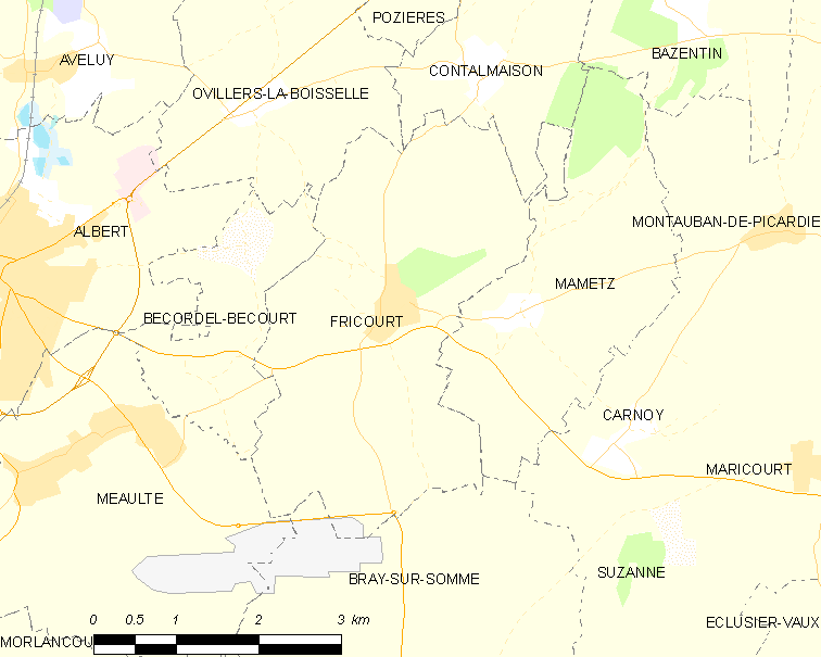 Map of French municipality Fricourt